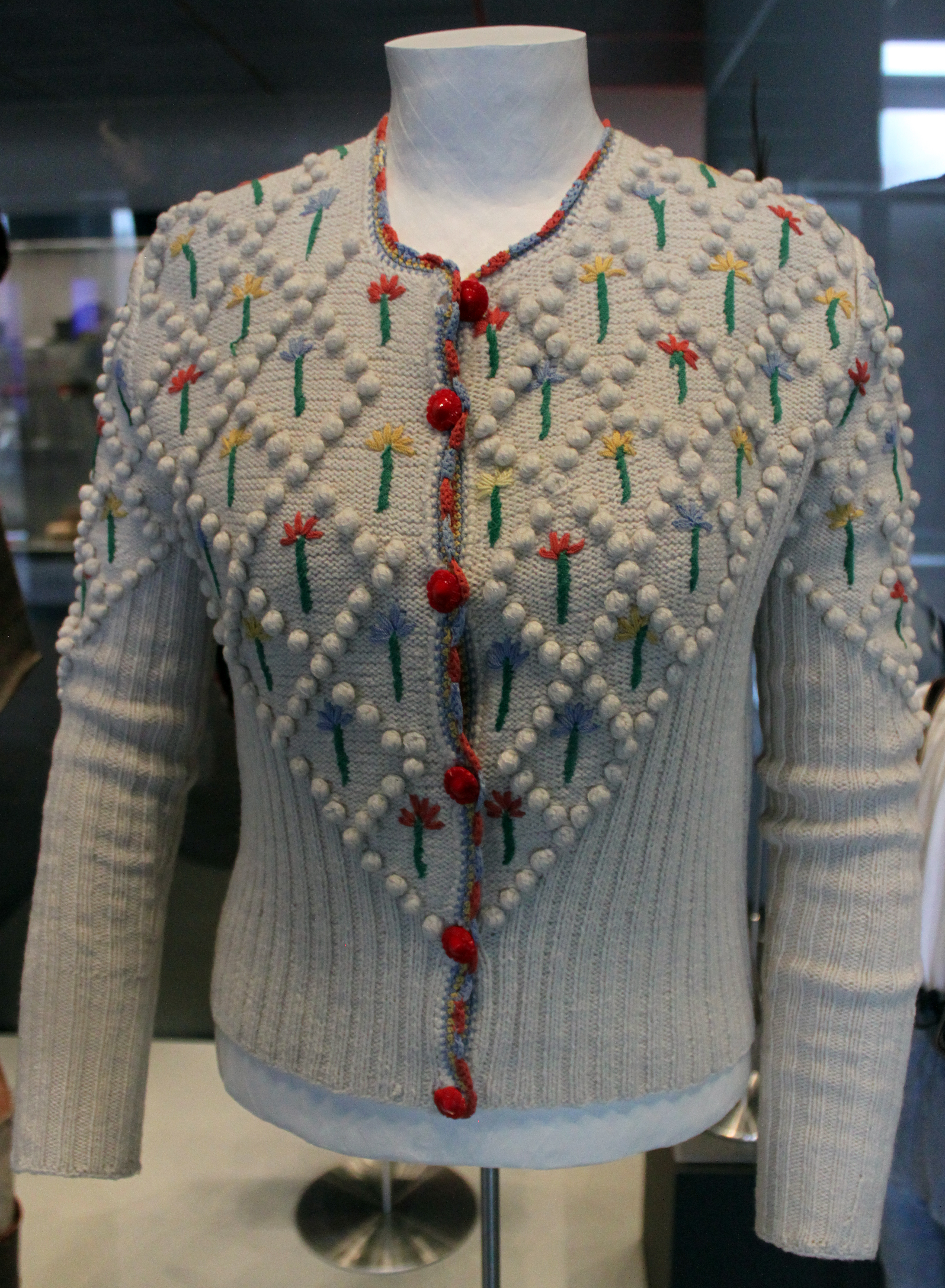 Sweater dress, 1940; Germanic National Museum in Nuremberg